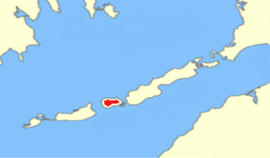 The location of Pasque Island within the Elizabeth Islands